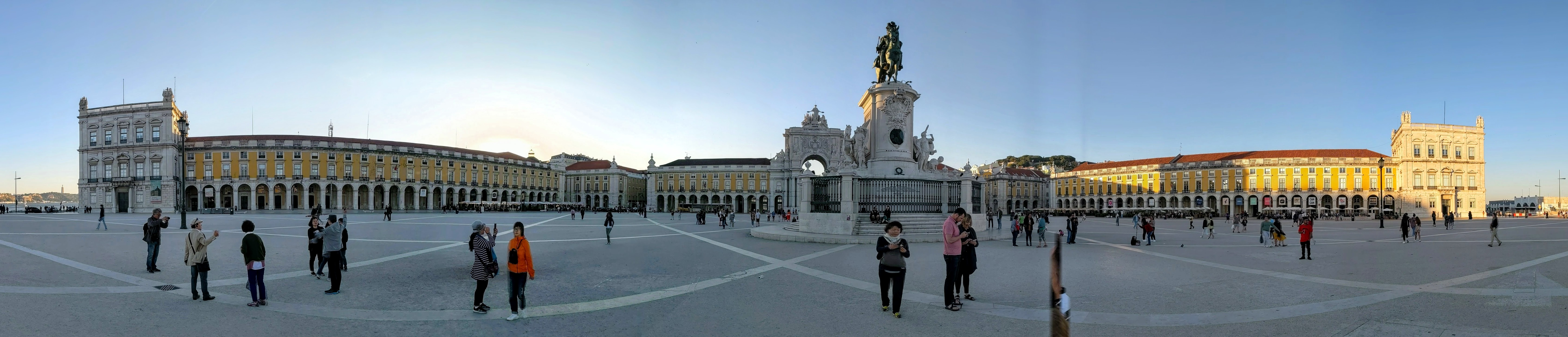 Lisbon Praça do Comércio panoramic view near sunset